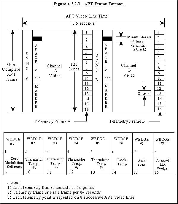 Diagram showing the Automatic Picture Transmission system's transmission frame format.